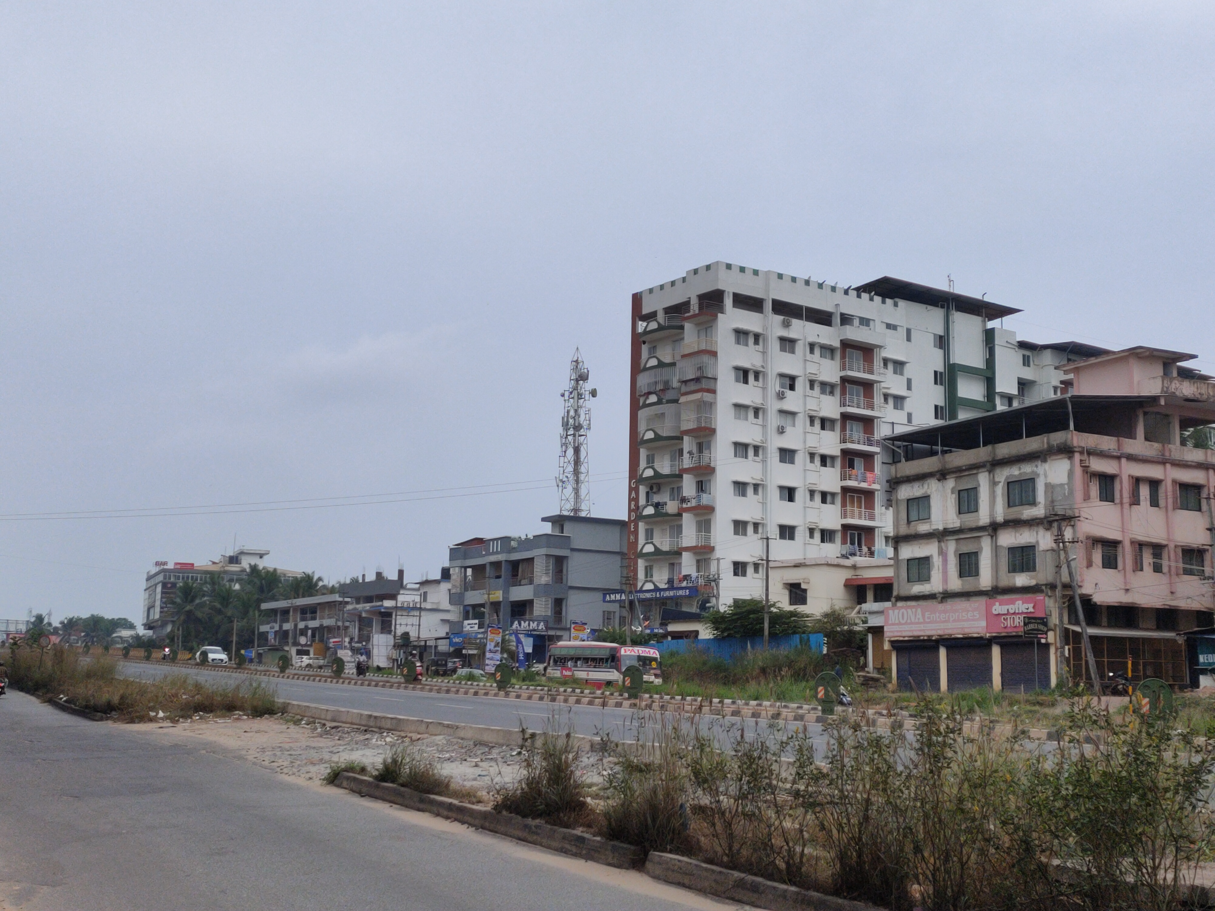 Thokottu 1